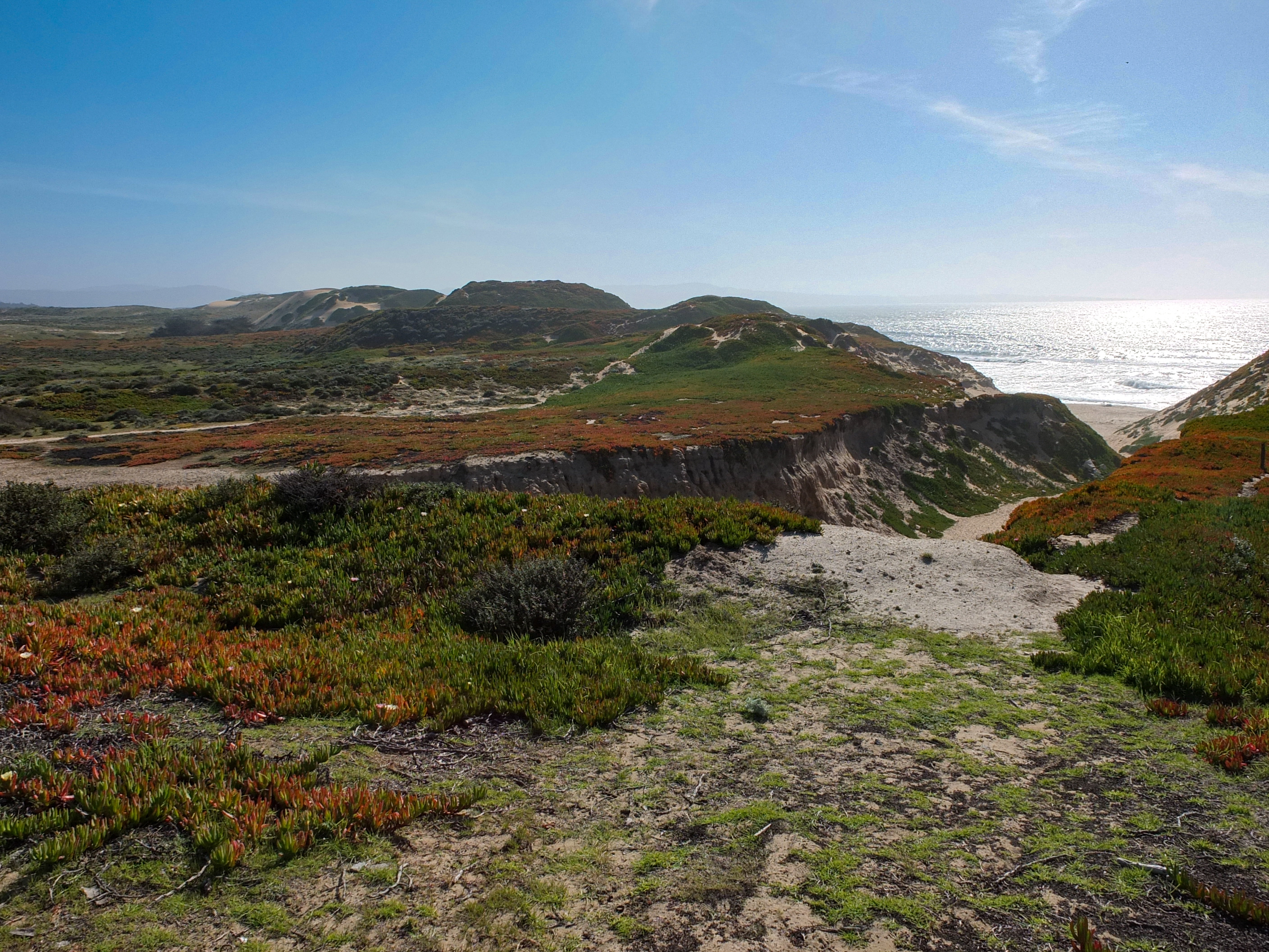 Fort Ord Dunes State Park, Monterey Bay